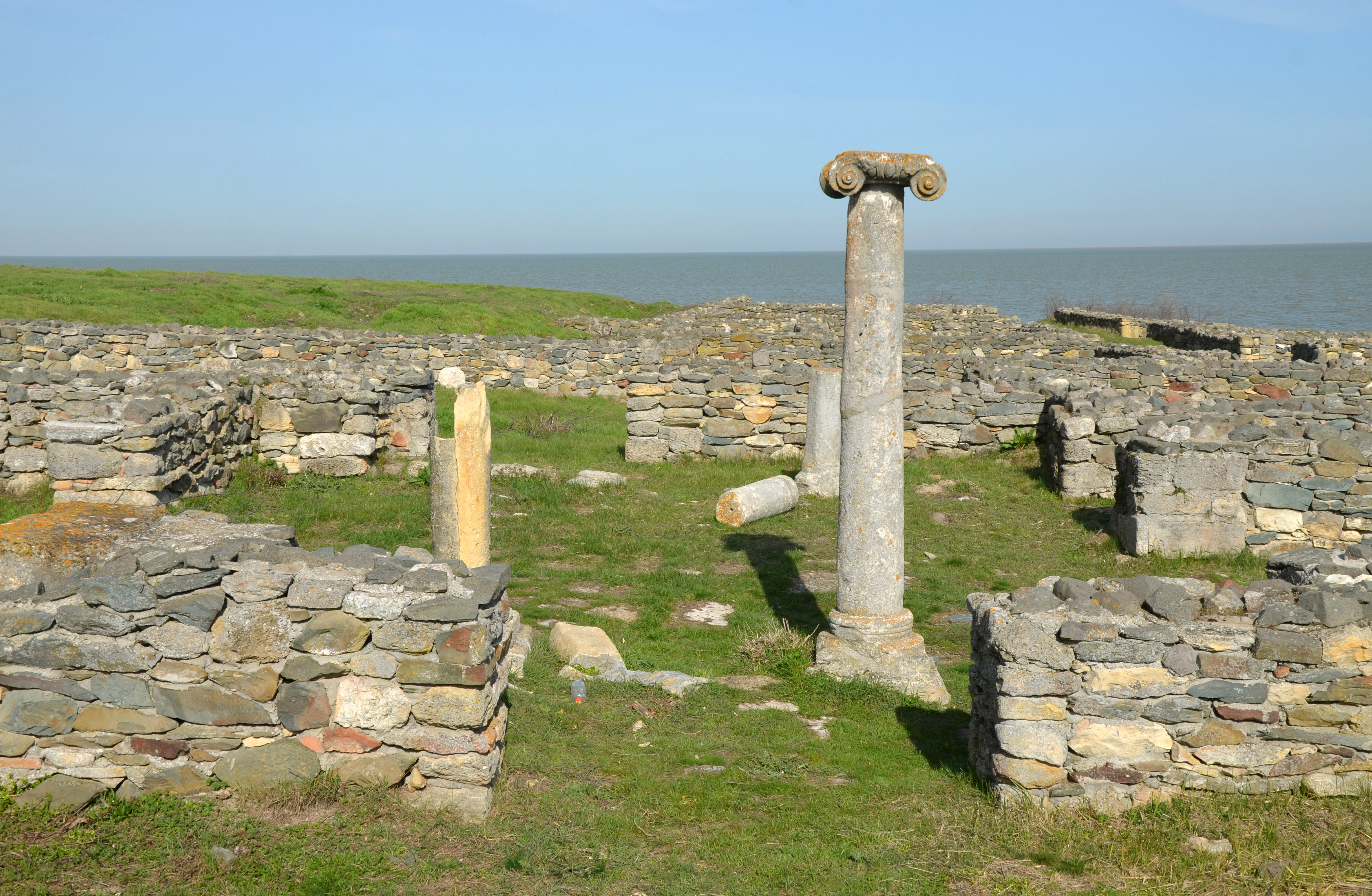 The residential district located in the eastern side of the town and dating from the late Roman period, Histria, Moesia Inferior, Romania